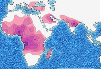 based on